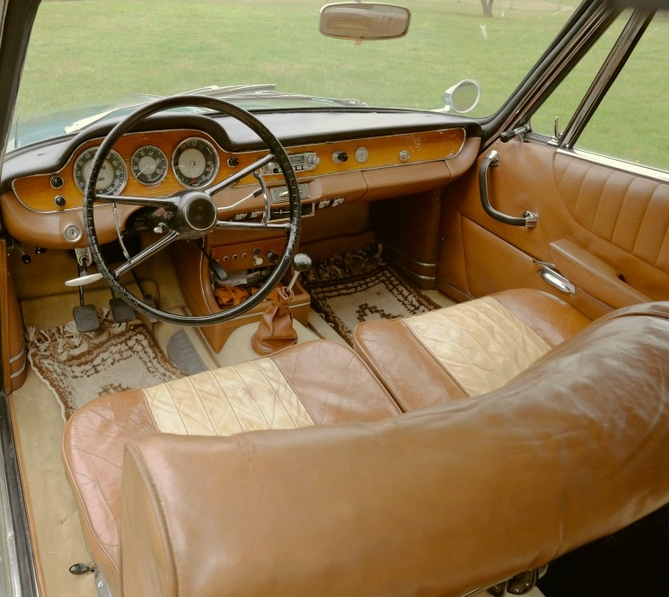 BMW 3200 CS Bertone Interieur